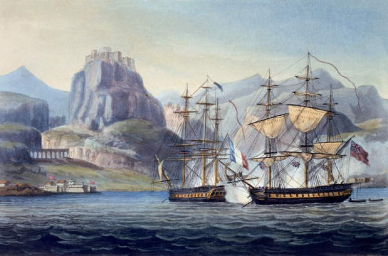 The Capture of the Var by HMS Belle Poule off Corfu, 15 February 1809. Taken from the Naval Chronology of Great Britain; Or, An Historical Account of Naval and Maritime Events from the Commencement of the War in 1803 to the End of the Year 1816 ... by James Ralfe. Published 1820. Engraved by Sutherland. Printed by Whitcombe